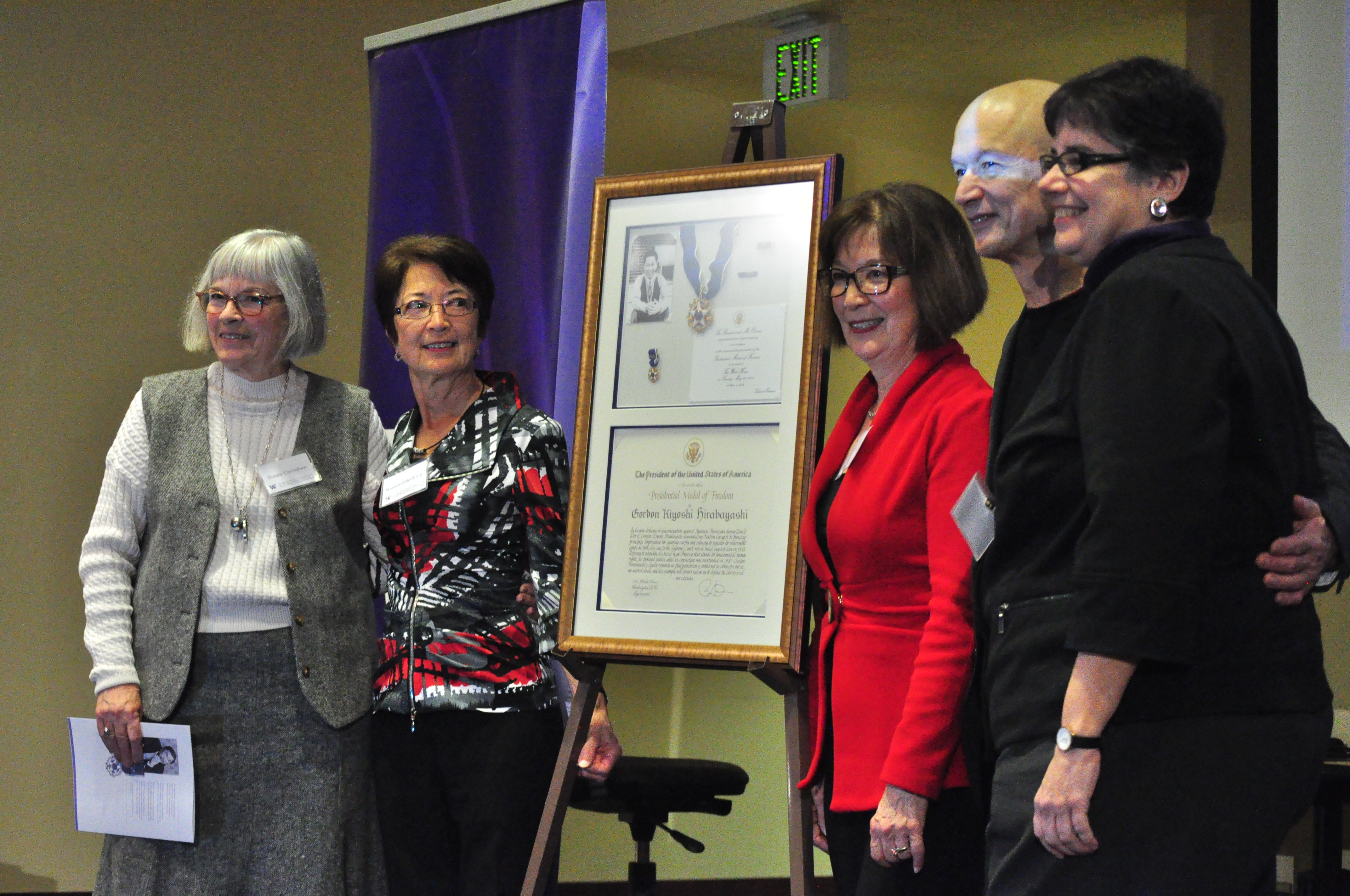 Family of Gordon Hirabayashi pose with his Presidential Medal of Freedom during Courage in Action: the Life and Legacy of Gordon K. Hirabayashi, a symposium on the occasion of the presentation of Gordon K. Hirabayashi's Medal of Freedom to the the University of Washington Library Special Collections, which holds the Gordon Hirabayshi Papers, February 22, 2014. Left to right: Susan Carnahan (second wife, widow), Marion Oldenburg (daughter), Jay Hirabayashi (son), Sharon Yuen (daughter); University of Washington Provost Ana Mari Cauce accepting the donation on behalf of the university.